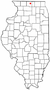 Category:Illinois city locator maps